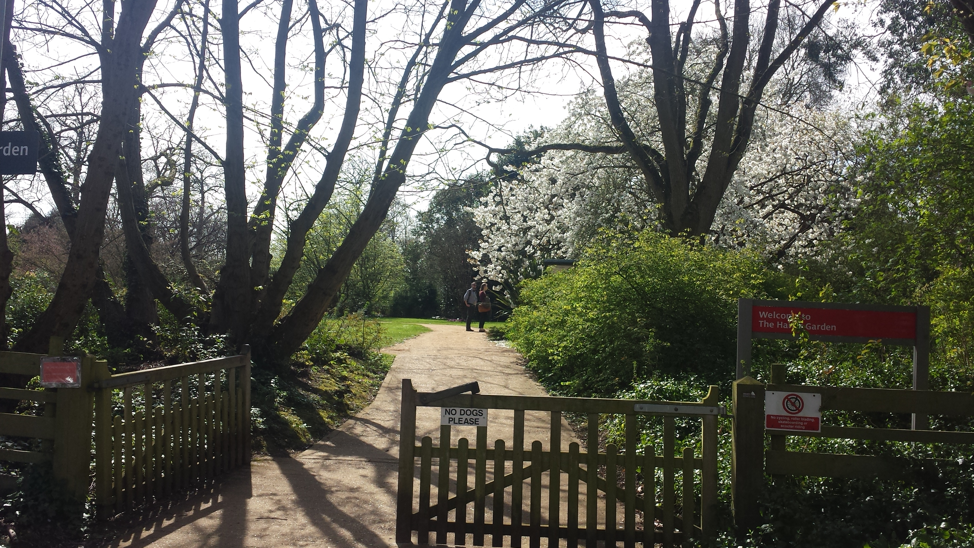 The entrance to the Harris Garden, the botanical gardens of the University of Reading. The gardens are situated on the Whiteknights Park campus of the university, and the entrance is adjacent to the Botany building.